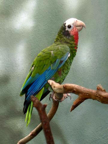 Description: Cuban Parrot - Source: own work - Location: Bronx Zoo, New York - Author: self, User:Stavenn